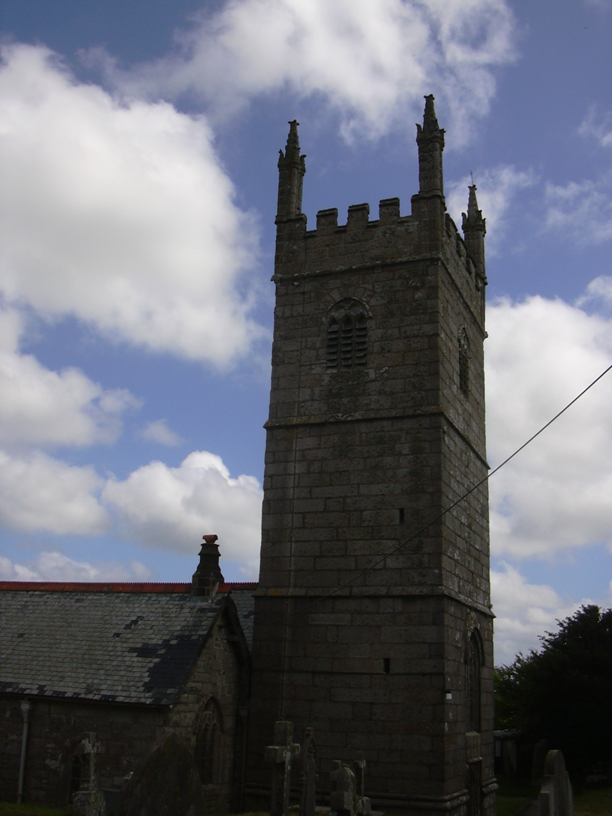 16th C Tower of the Church of St. Laudus, Mabe, Cornwall